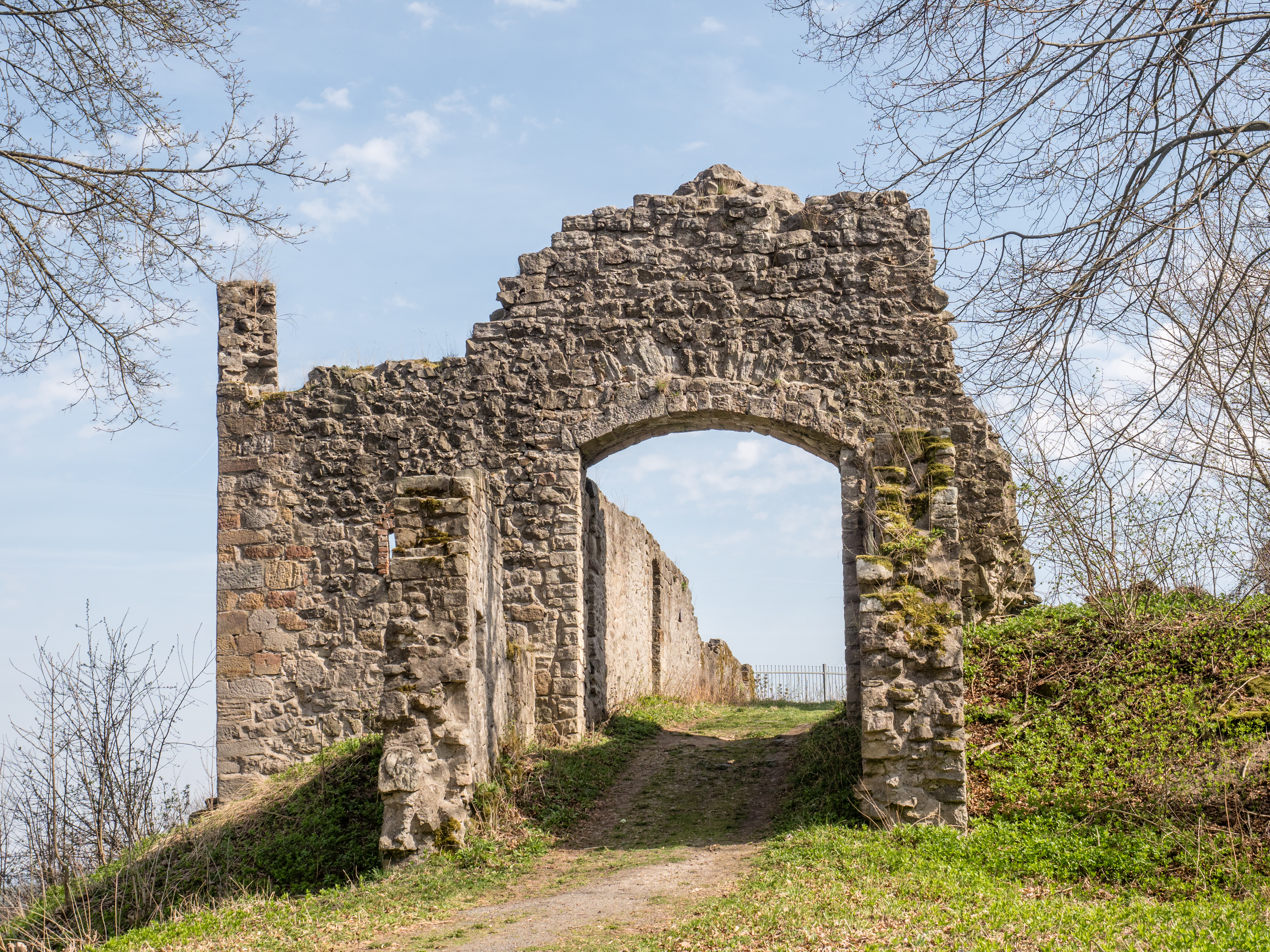 Gate to the bailey of the Bramberg ruin